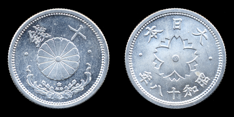 10sen-S18